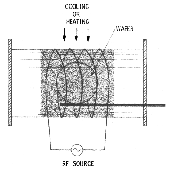 an image depicting the mechanisms involved in hydrogen plasma etching